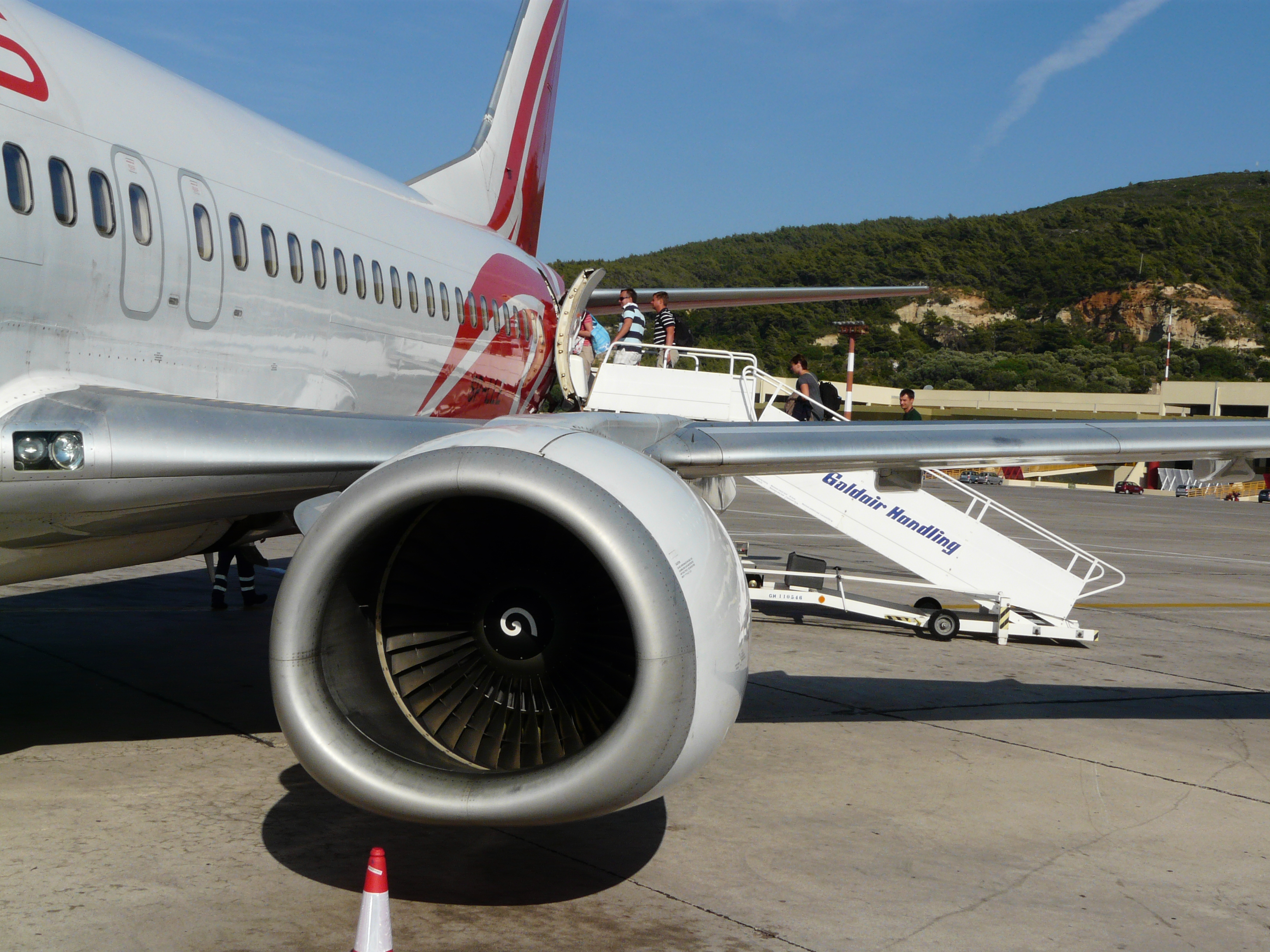 Rhodes International Airport, "Diagoras", 2009.